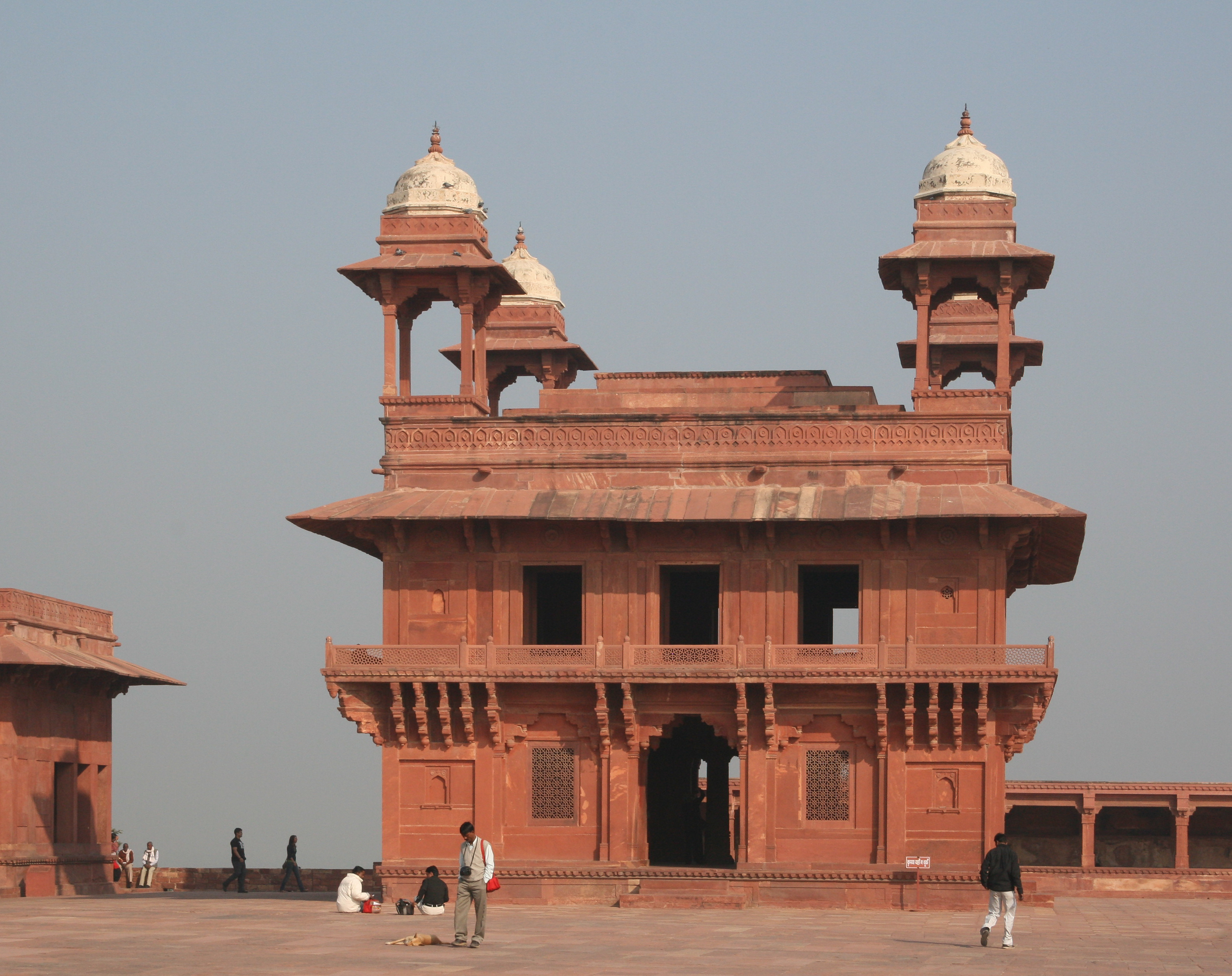 Diwan-i-Khas, Fatehpur Sikri, India